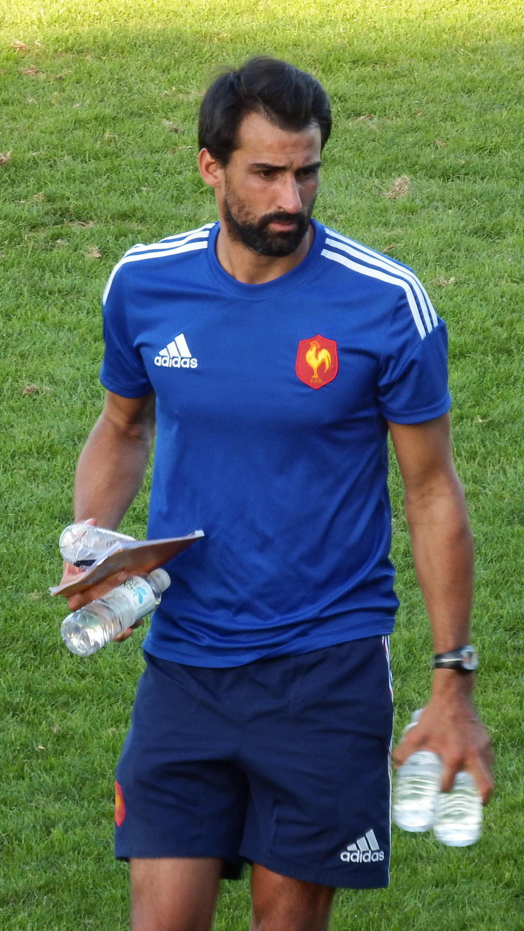 Malemort Sevens 2016 — 24 September 2016, stade Raymond-Faucher. Match between: France — Spain